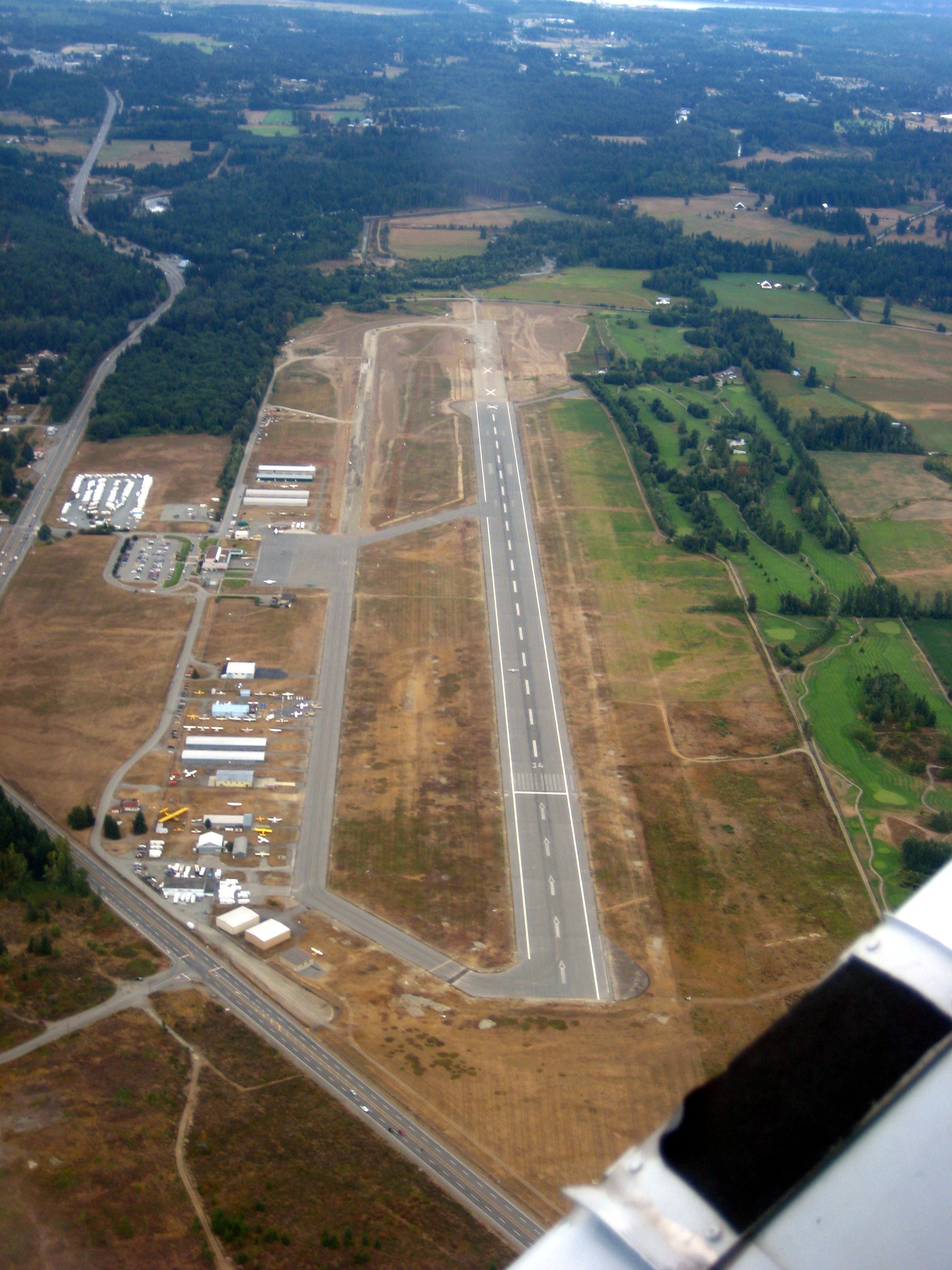 Looking (roughly) north at Nanaimo Airport (CYCD). On a flight with a roommate who's time-building for his Commercial, so I had time to take pictures.